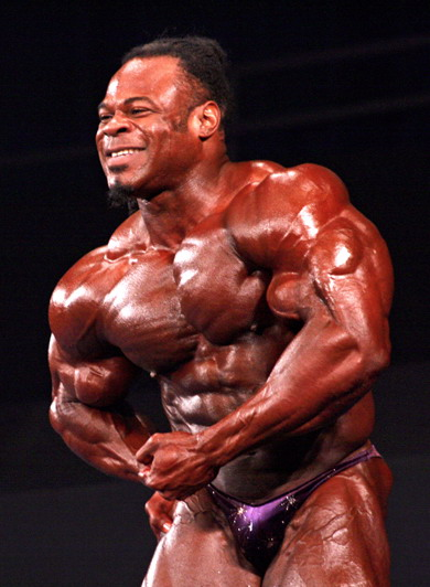 Kai Greene IFBB 2009 Australia